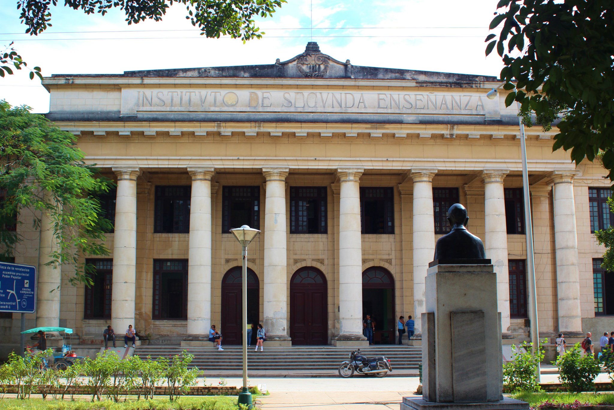 A seconday school in Camaguey Cuba